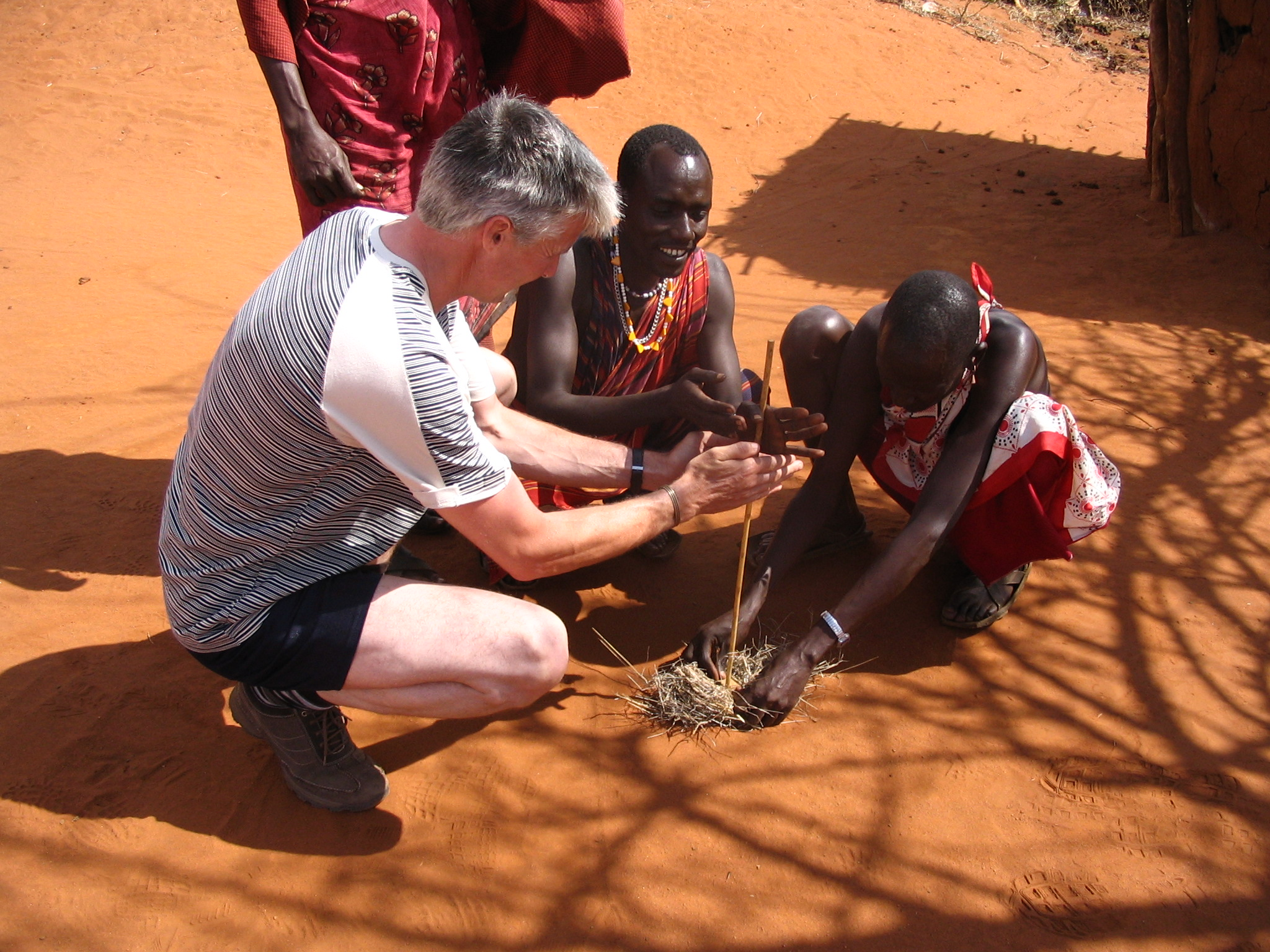 Maasai people and a tourist lighting a fire in a village on the A109 road, Kenya.